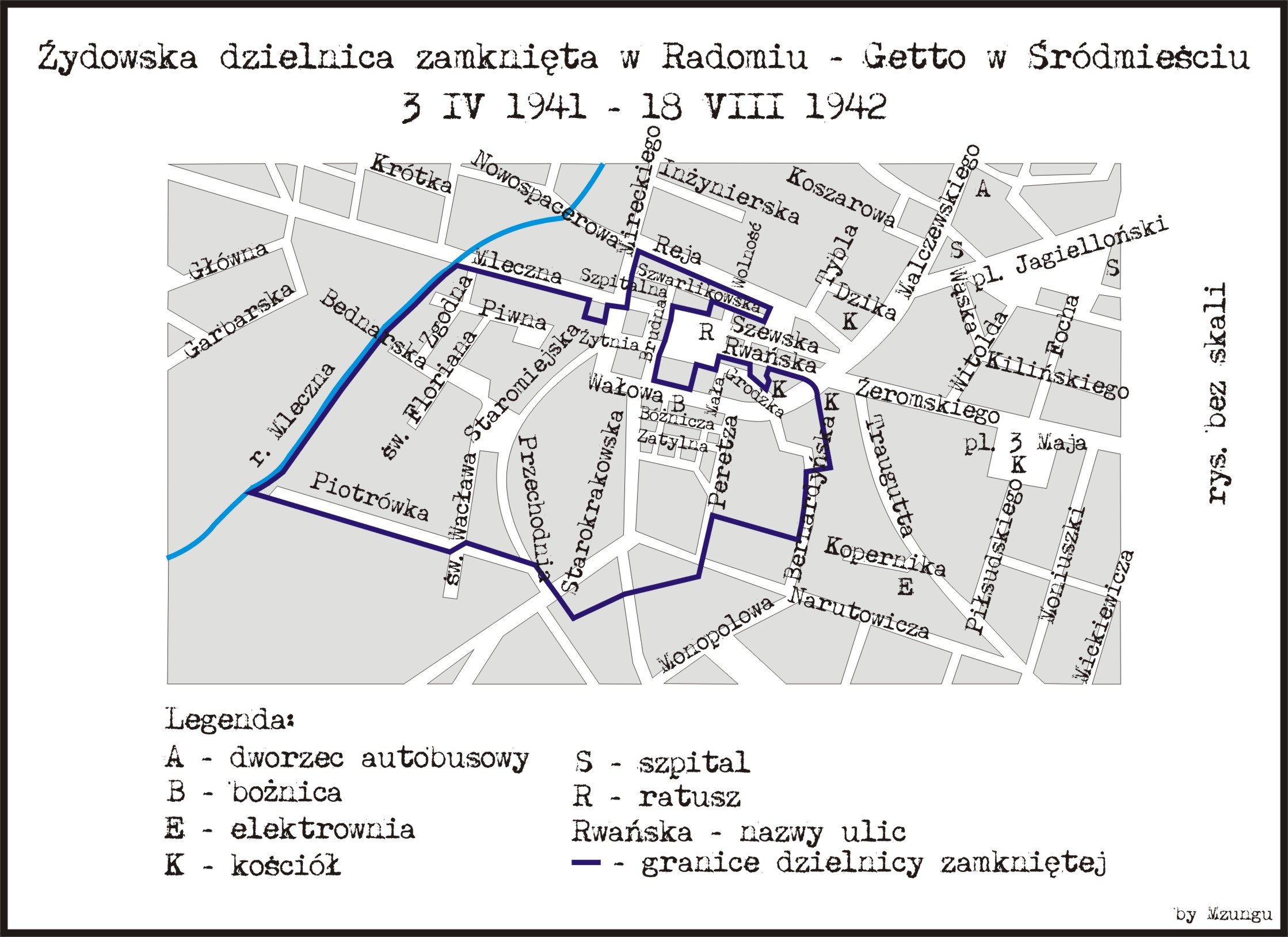 Jewish quarter in Radom - City Center, so called "Big ghetto"